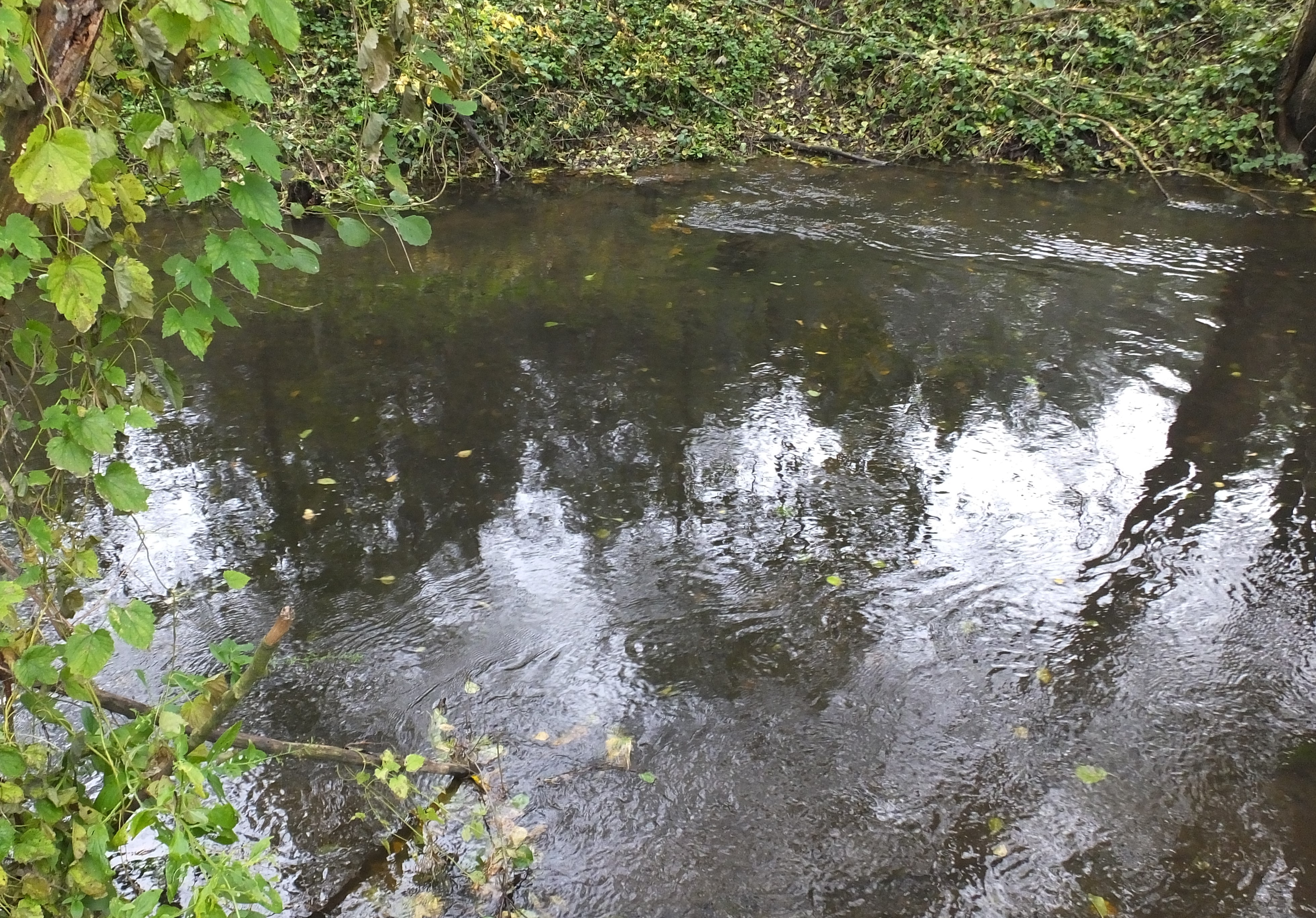 Hydromorphological elements of river water body assessment - transition of a habitat with laminar (smooth) flow (glide) into a habitat with rippled flow (riffle)